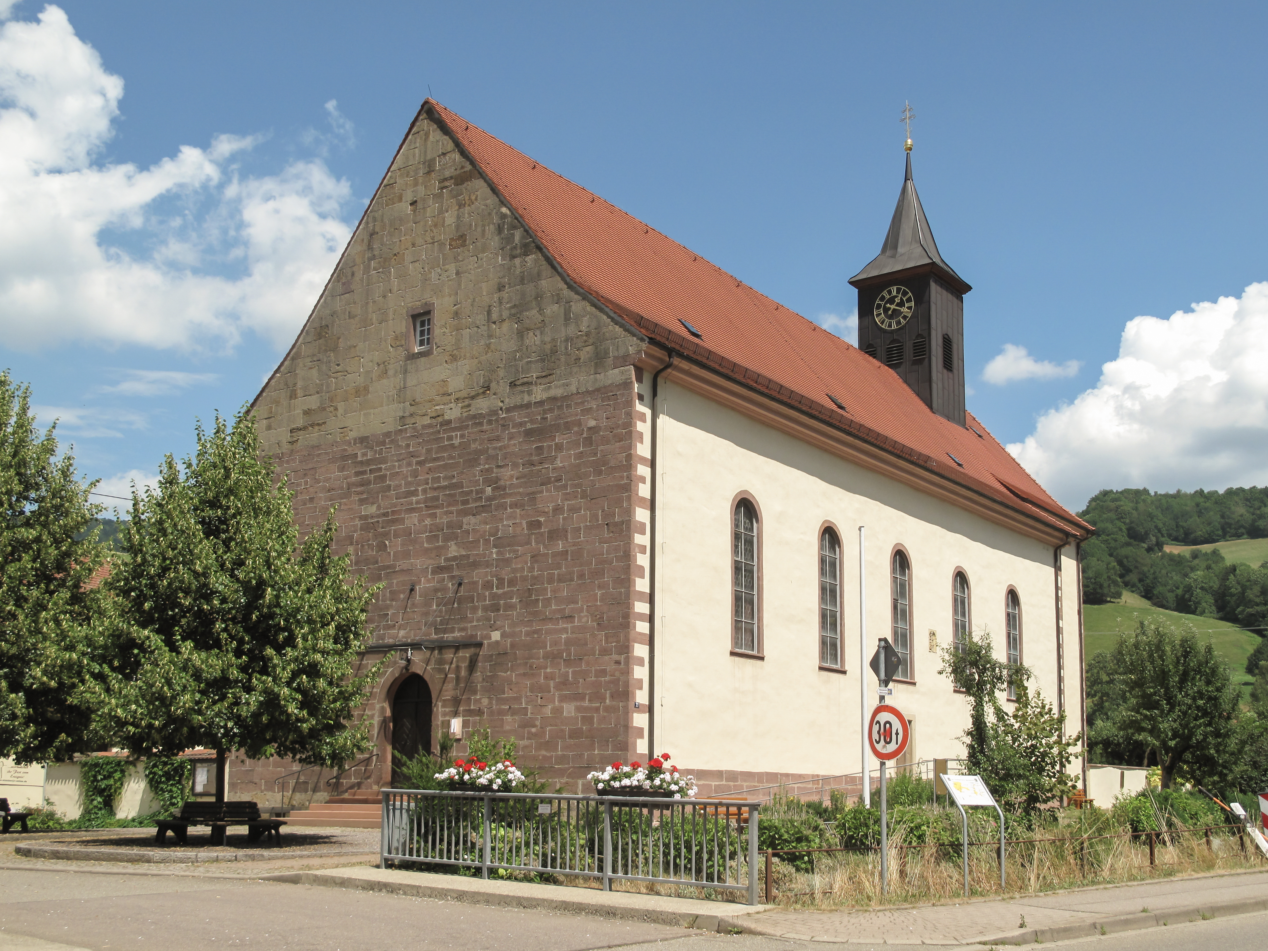 Eschbach, church: die Sankt Jakobus Pfarrkirche